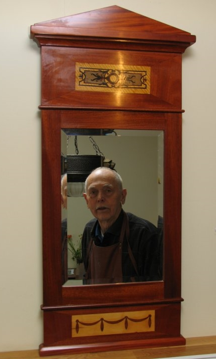 Bjergas speil laget på bestilling fra HM Kongens slott.